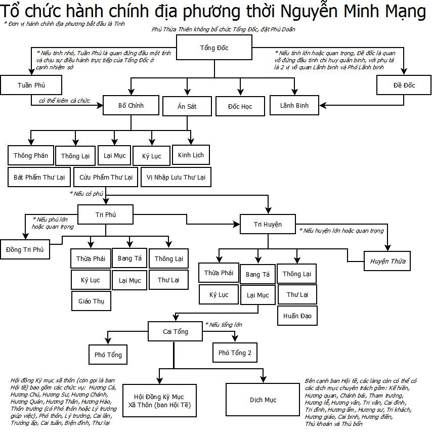 Tổ chức hành chính địa phương dưới triều Nguyễn Thánh Tổ.